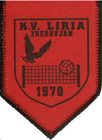 Логото на одбојкарскиот клуб „Лирија“ од тетовско Жеровјане